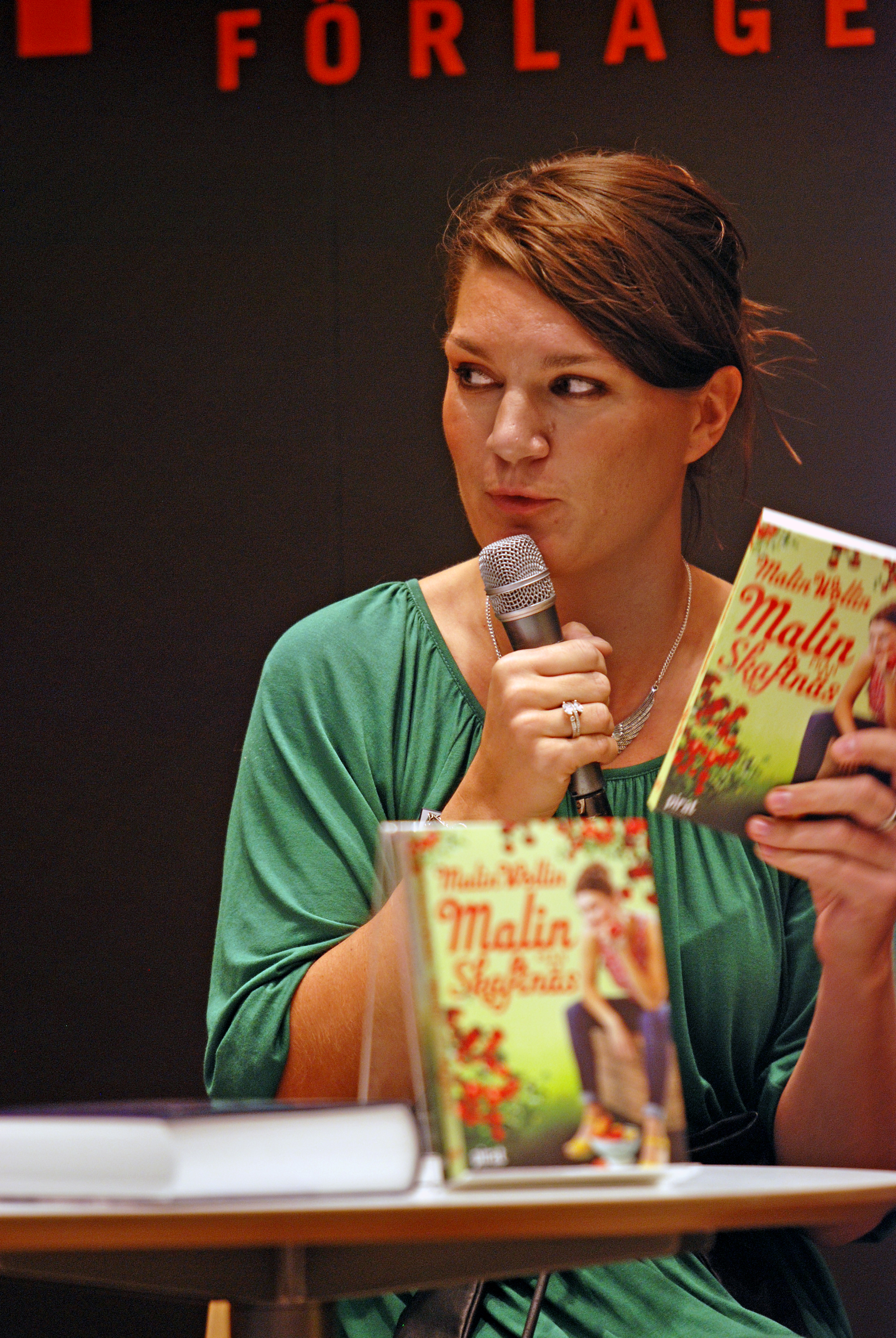 Journalist, blogger and author malin Wollin at Göteborg Book Fair 2011.